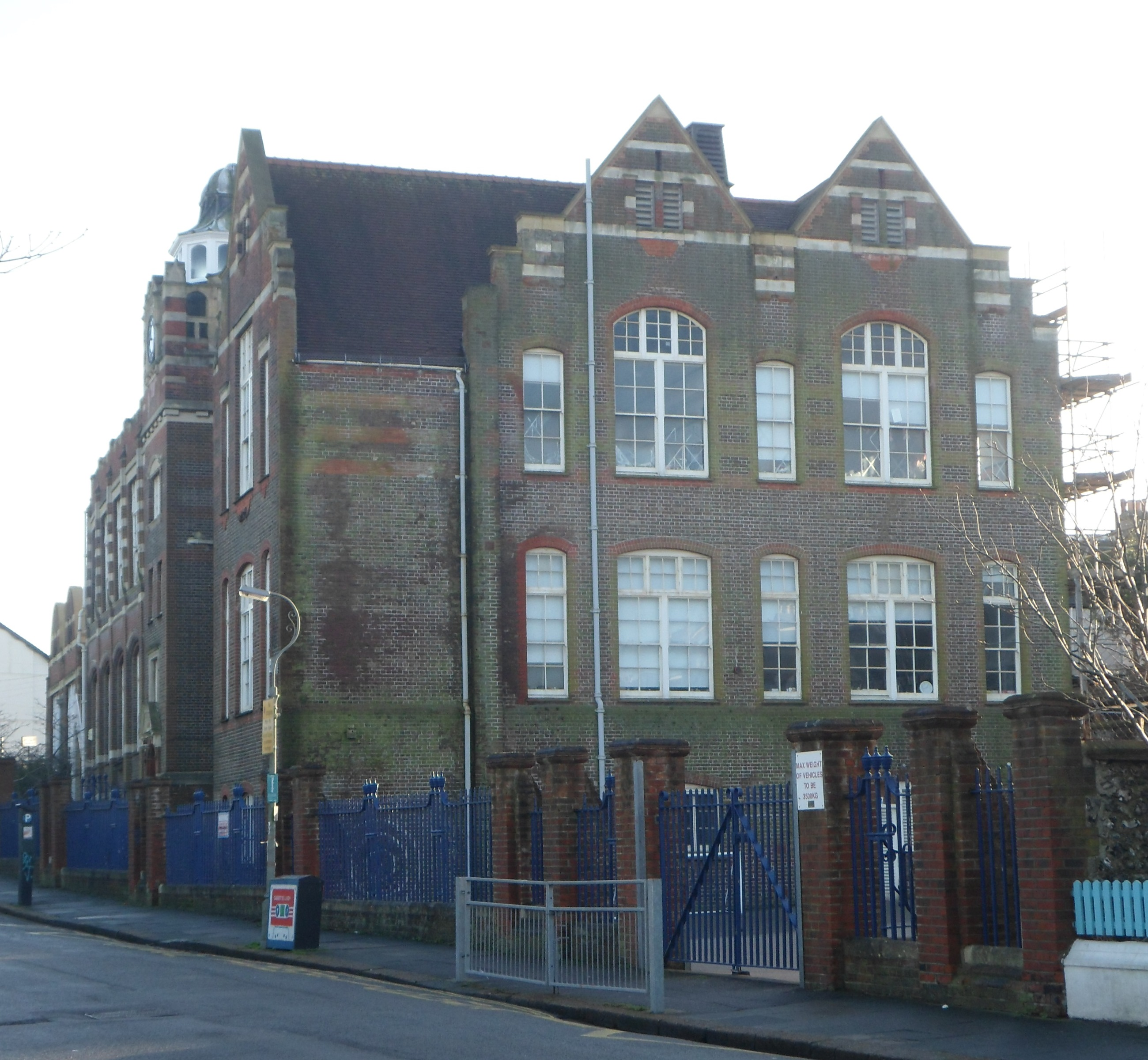 Stanford Road School, Stanford Road, Prestonville, City of Brighton and Hove, England. Built as a Board School in 1893 by Thomas Simpson; still in use as a primary school.